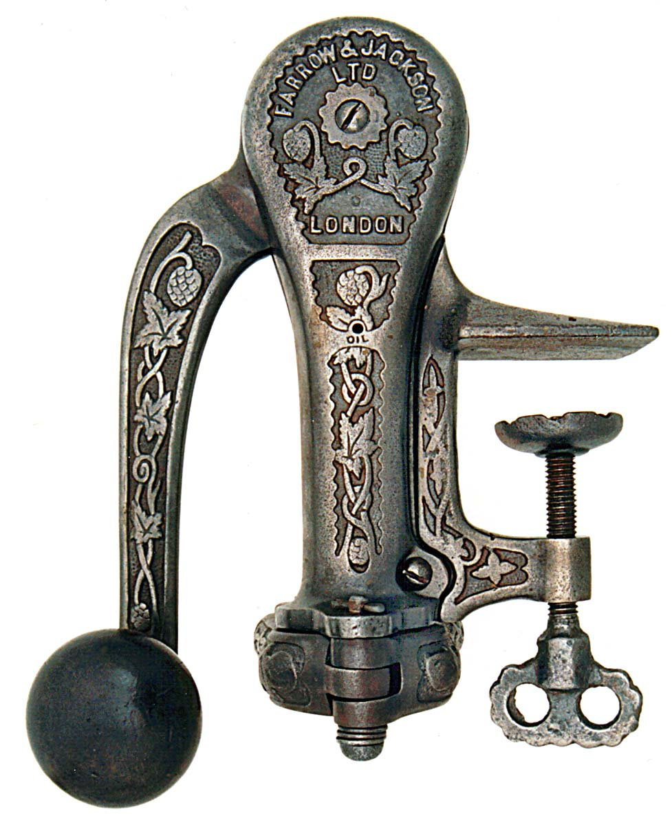 Mounted corkscrew manufactured by Samuel Mason Ltd. for Farrow and Jackson